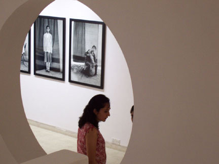 Nature Morte New Delhi 1